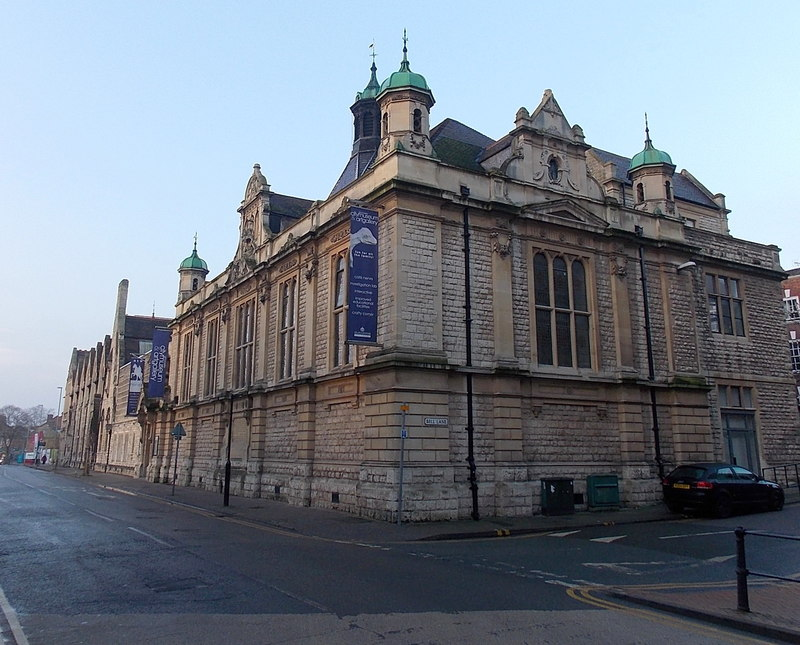 Gloucester City Museum & Art Gallery